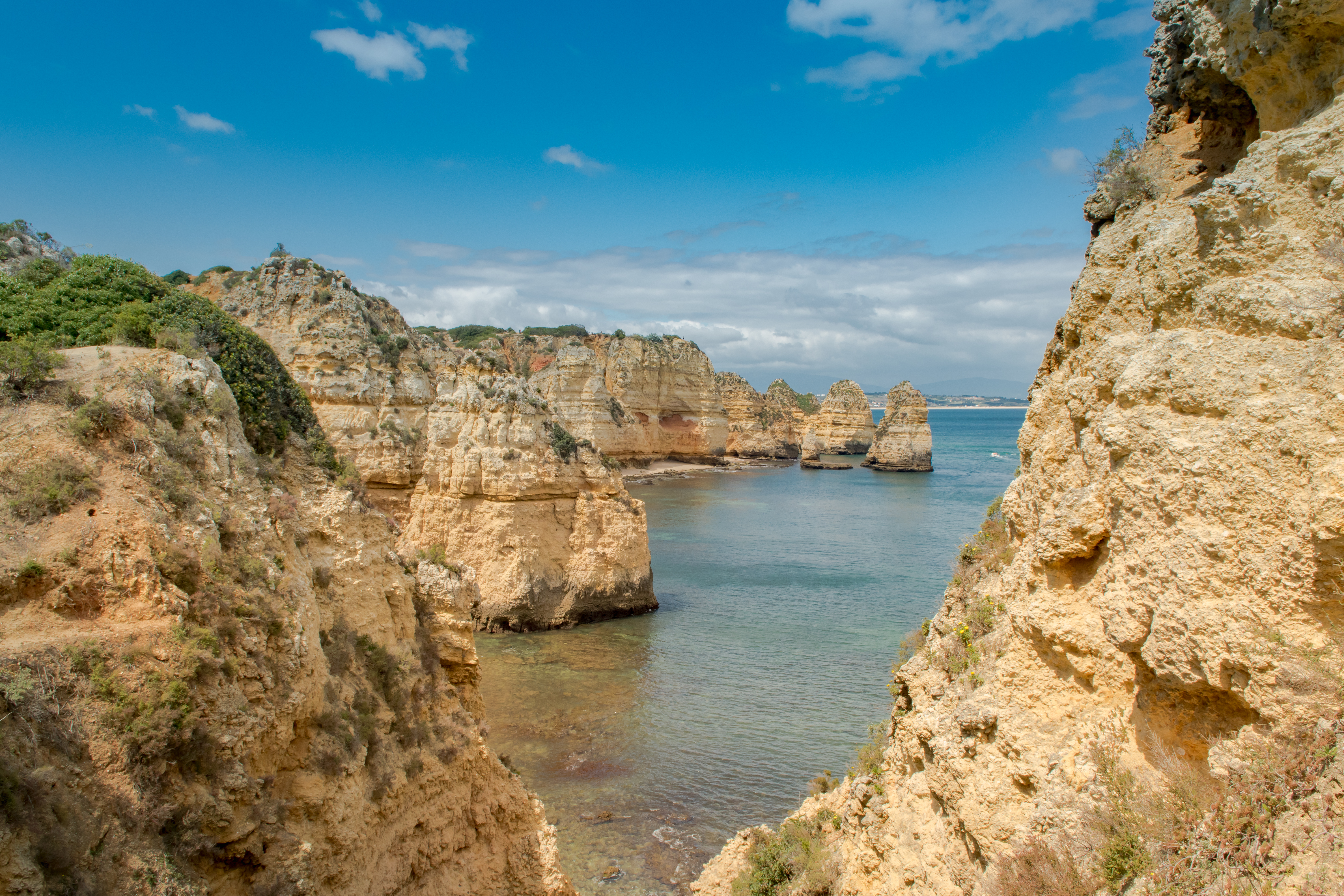 The Ponta da Piedade is the tip of a steep promontory near Lagos (Portugal) on the outskirts of Lagos in the Algarve.